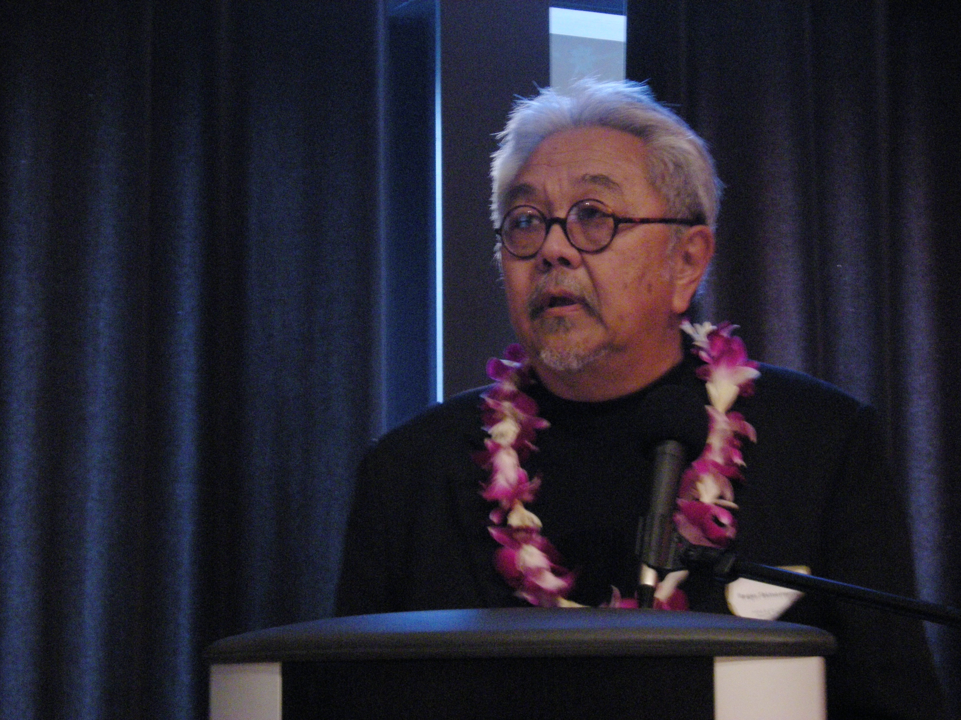 Artist Roger Shimomura attending the opening of Yellow Terror, a museum show of his work and of items from his collections, Wing Luke Museum, Seattle, Washington.